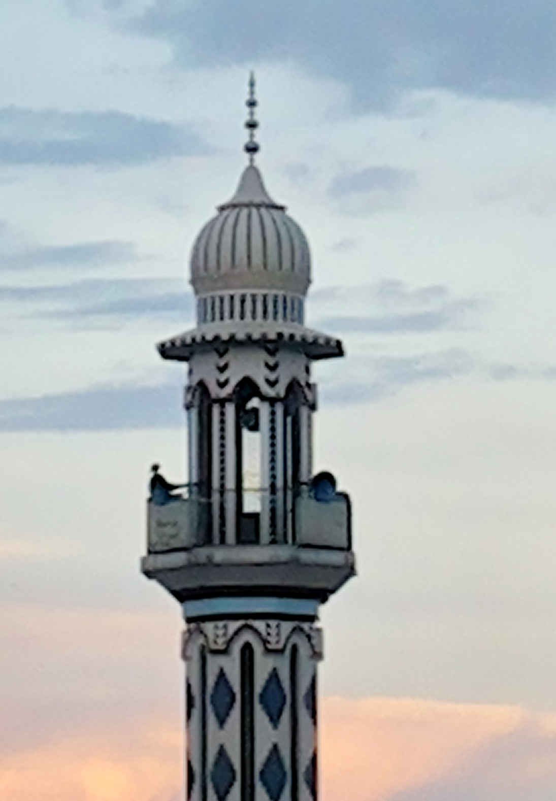 The first tower of the city erected by Saqib Mosque located in Jalalpur Jattan, Gujrat, Pakistan.